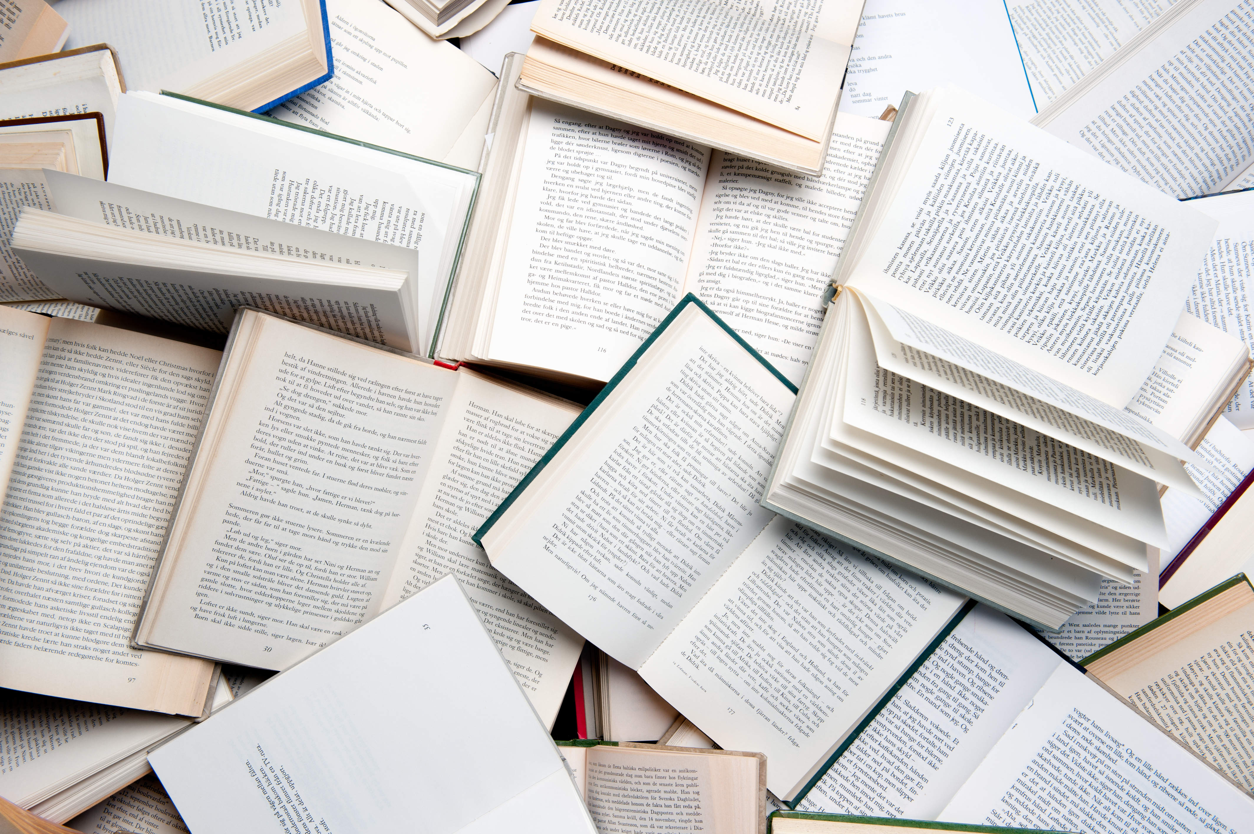 Urval av de böcker som har vunnit Nordiska rådets litteraturpris under de 50 år som priset funnits Keywords: Culture, Literature, Literature Prize